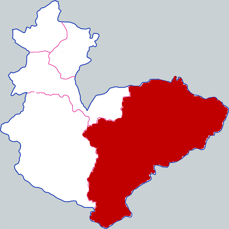 Location of Xun county in Hebi city, China